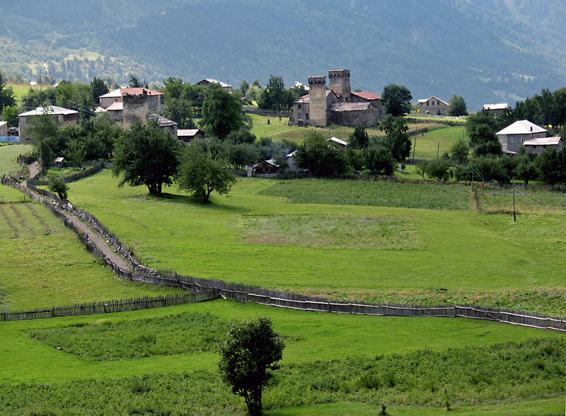 Zemo Svaneti (Upper Svaneti) is the historical Georgian province in North-West part of Georgia.